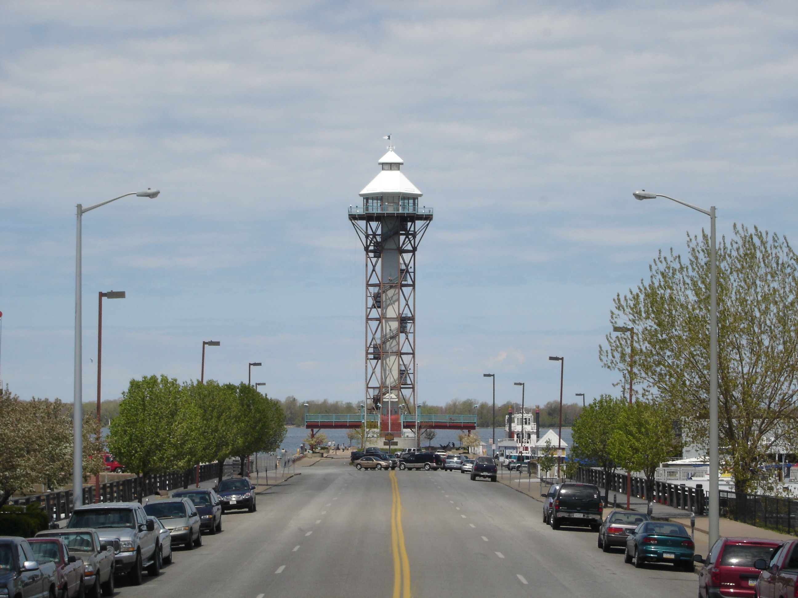 The Bicentennial Tower in Erie, Pennsylvania at the foot of State Street